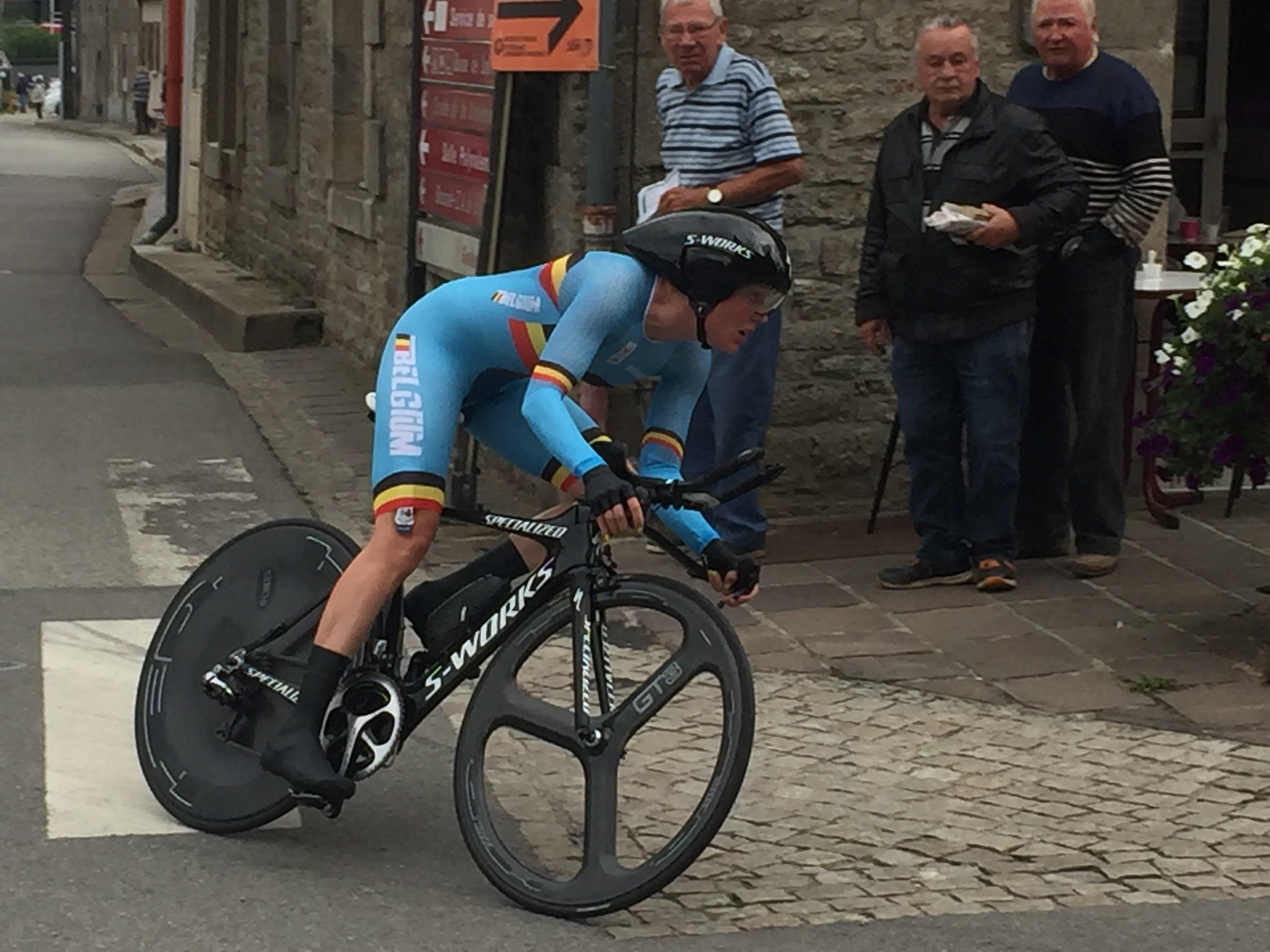 2016 Road World Championships